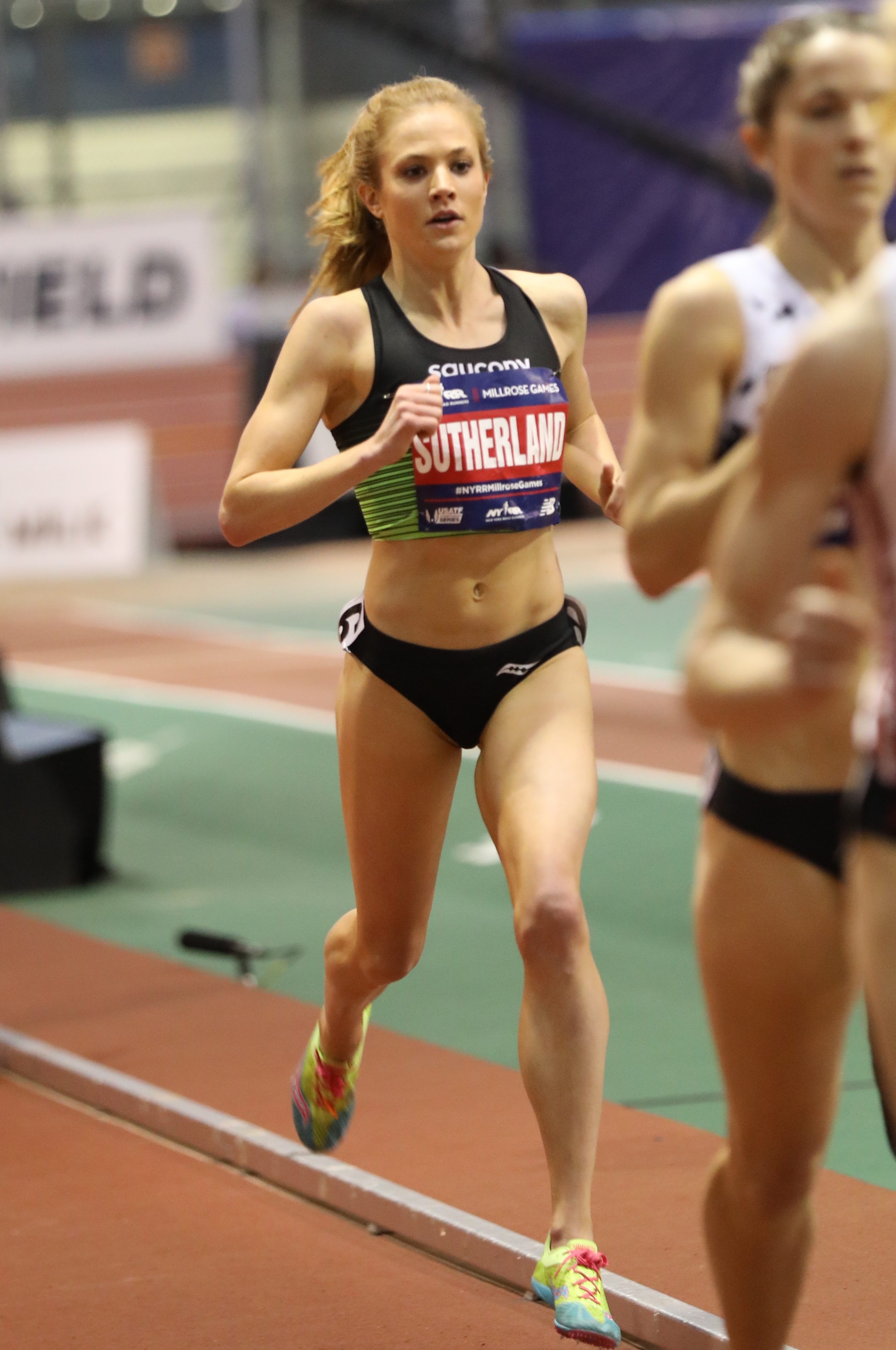 2019 Millrose Games